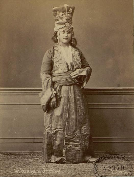 Greek woman native to Burdur (in southwest Anatolia).